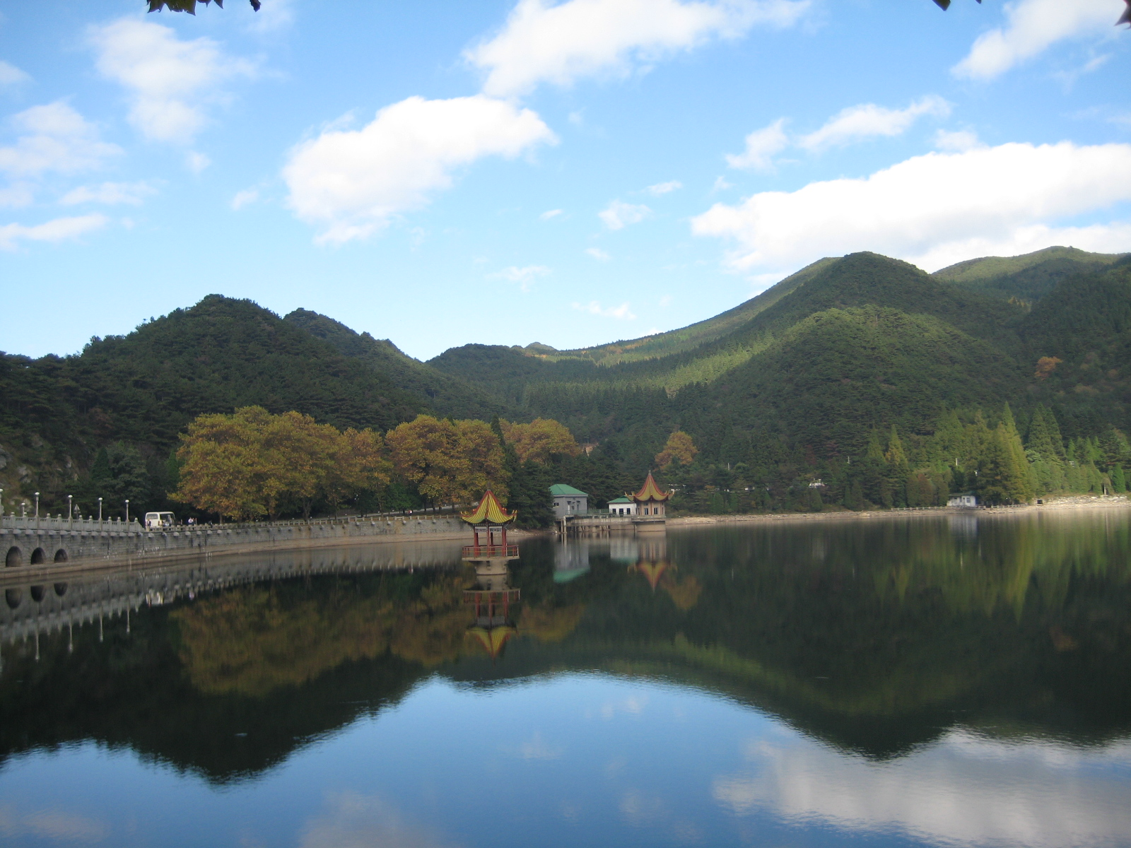 (如琴湖), "Ruqin" (如琴) means "like a violin", located in the top of Mount Lu, Jiujiang, Jiangxi, China 2008-10-28